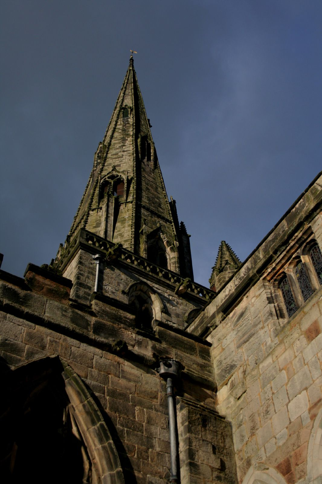 St Oswald's Church, Ashbourne